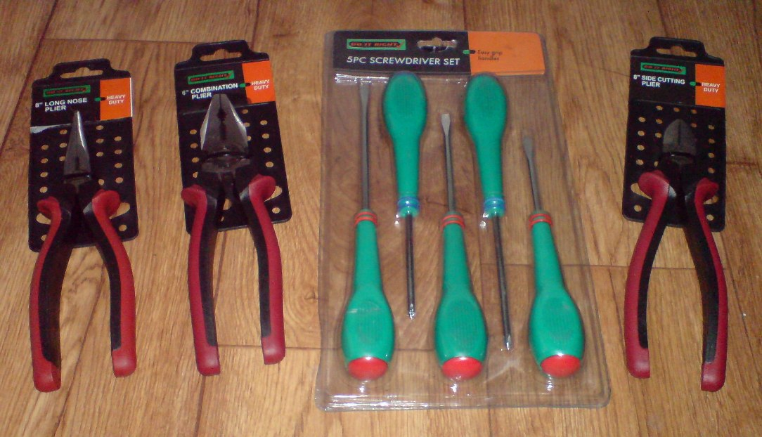 Photo taken of 99p Stores' own brand DIY products